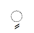 The letter Kasratan from the Arabic alphabet, belonging to the group of Harakat diacritic marks, used to represent vowels. The Kasratan (actually two Kasras) is found at the end of words in the undetermined genitive case and sounds like /in/. The circle indicates the position of the consonant the Harakat is used upon.